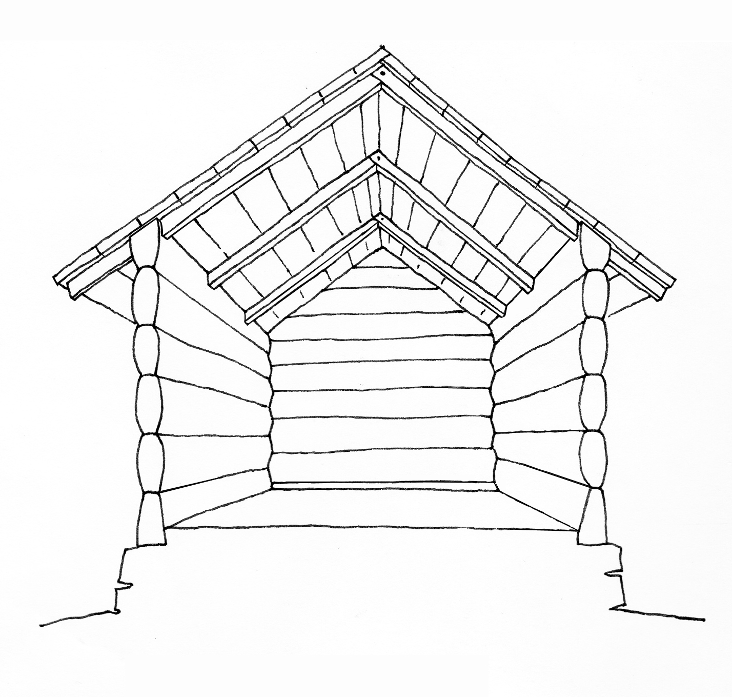 Section of a log house with rafter roof